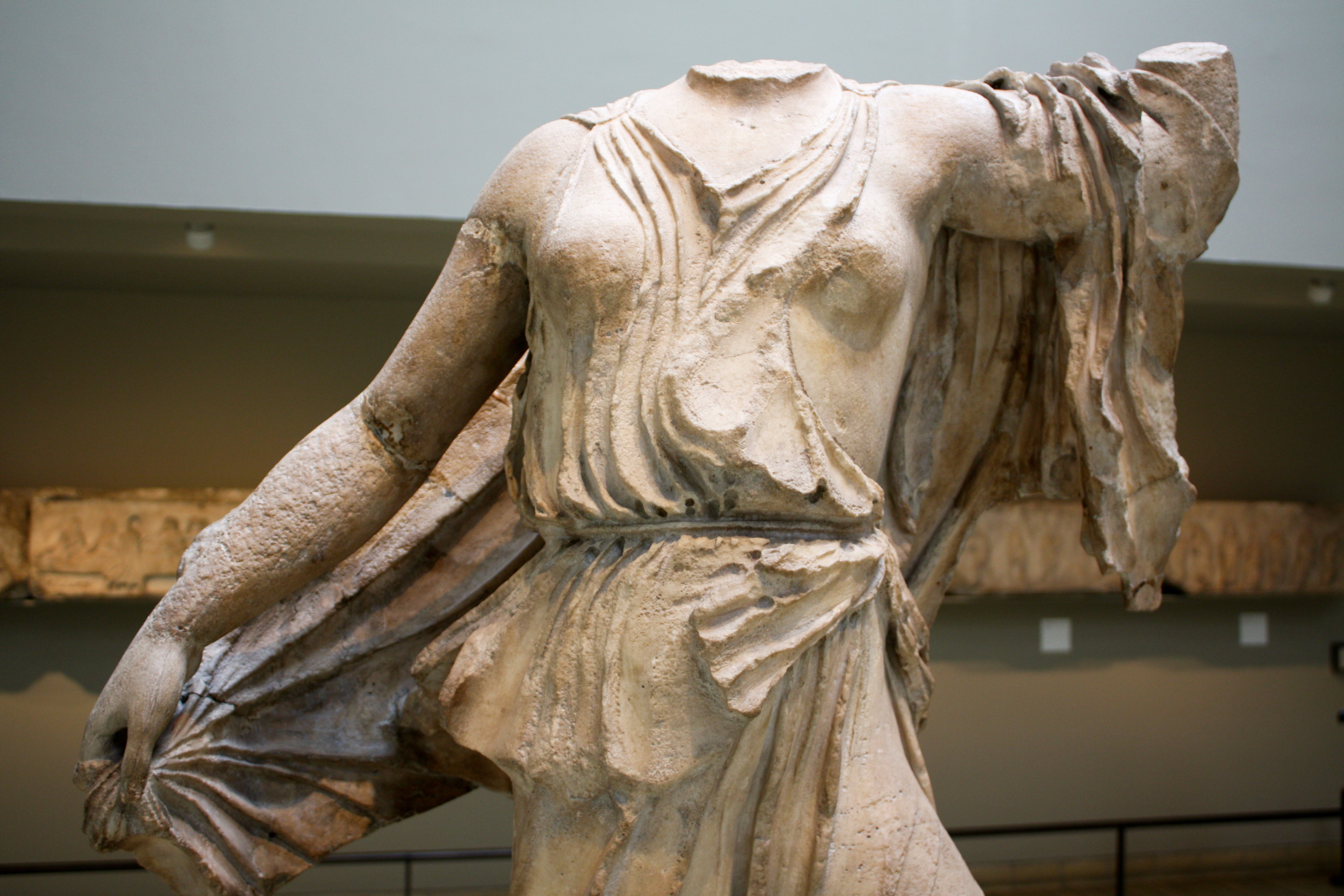 British Museum